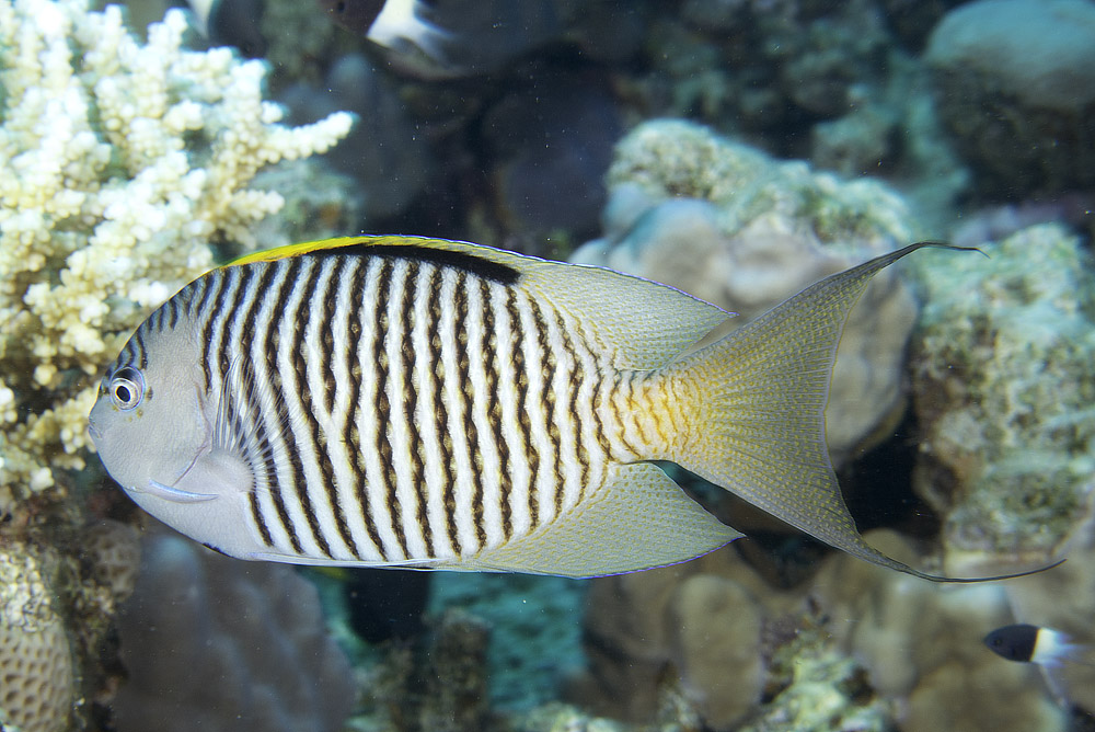 Genicanthus caudovittatus male, Egypt.